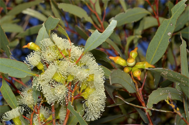 Flower buds and flowers of Eucalyptus incrassata growing in Murray Sunset National Park, Grub Track, Victoria